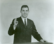 A picture of Buz Lukens.